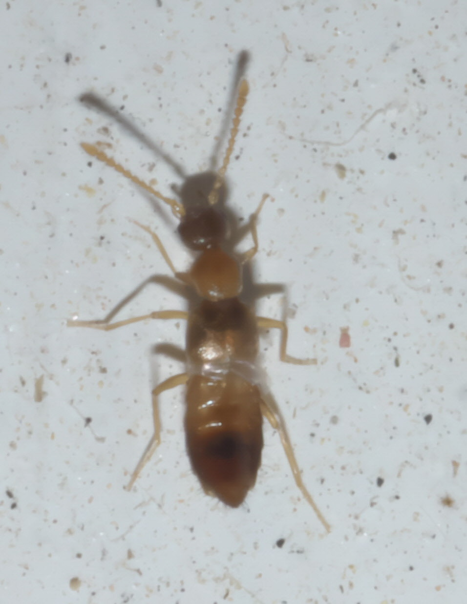 Meronera venustula, Family: Rove Beetles, Size: 2.2 mm, ID Confidence: 98